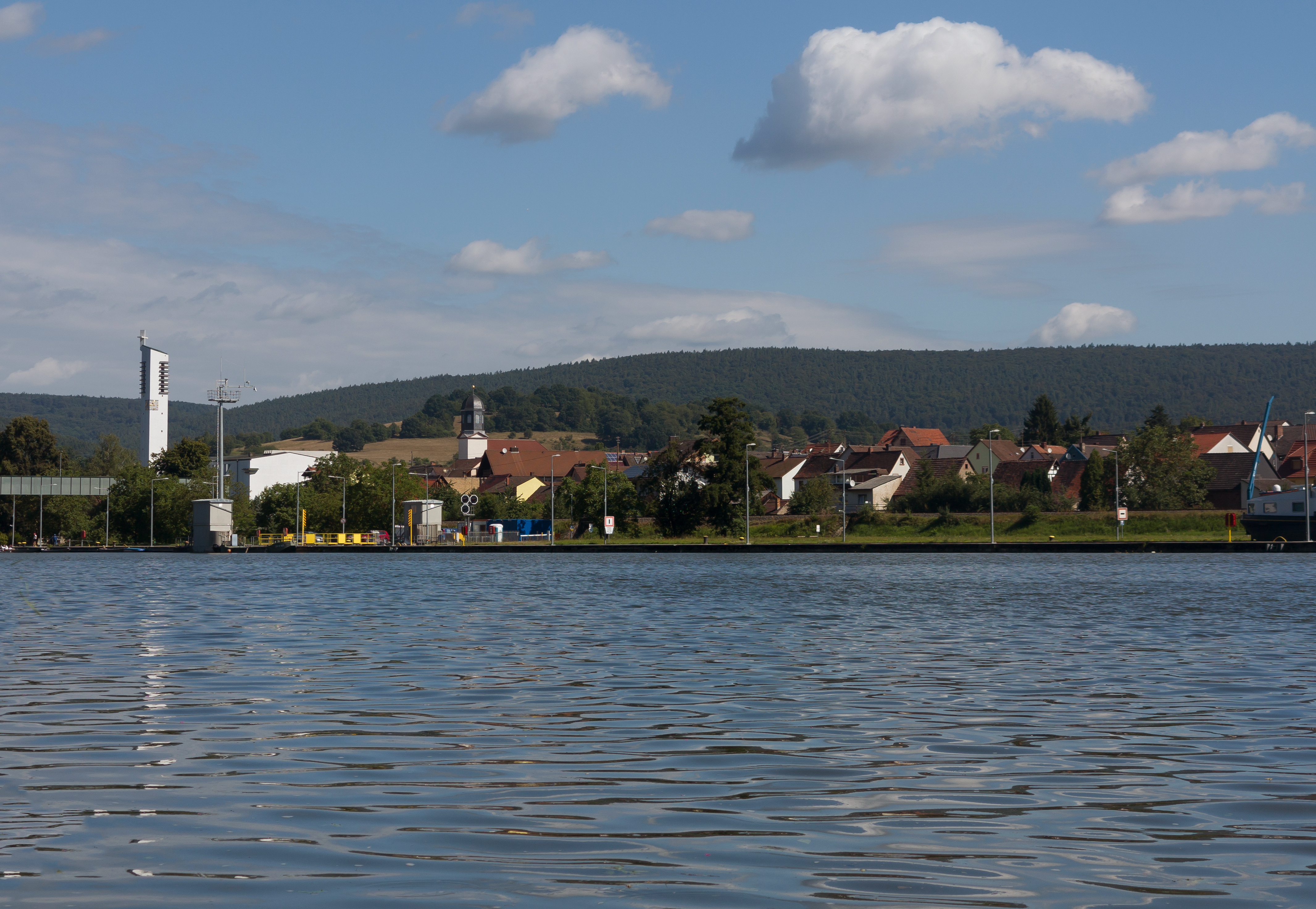 Faulbach, view to the village